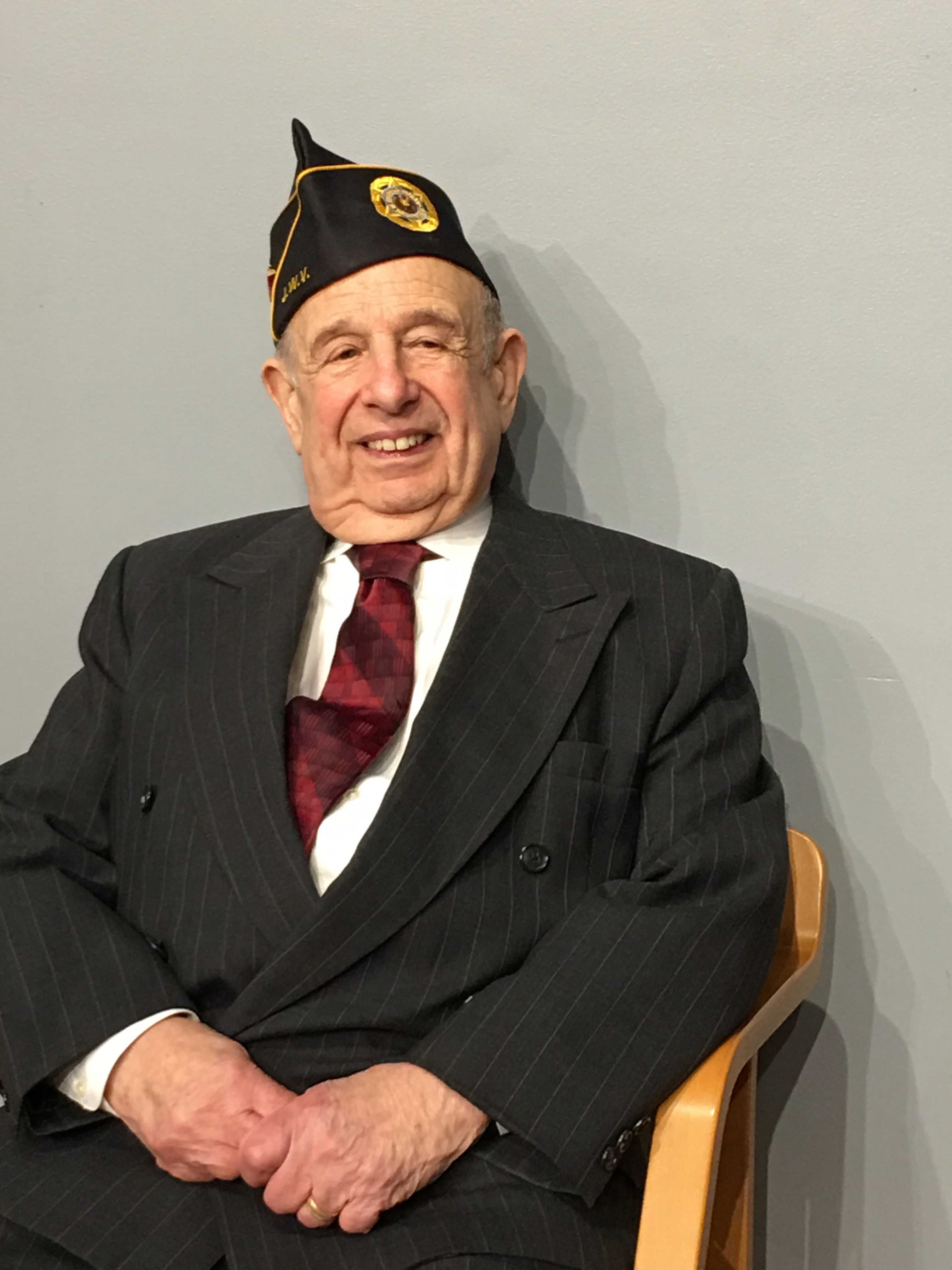 Guy Stern received the National Order of the Legion of Honour, the highest French order of merit for military and civil merits.